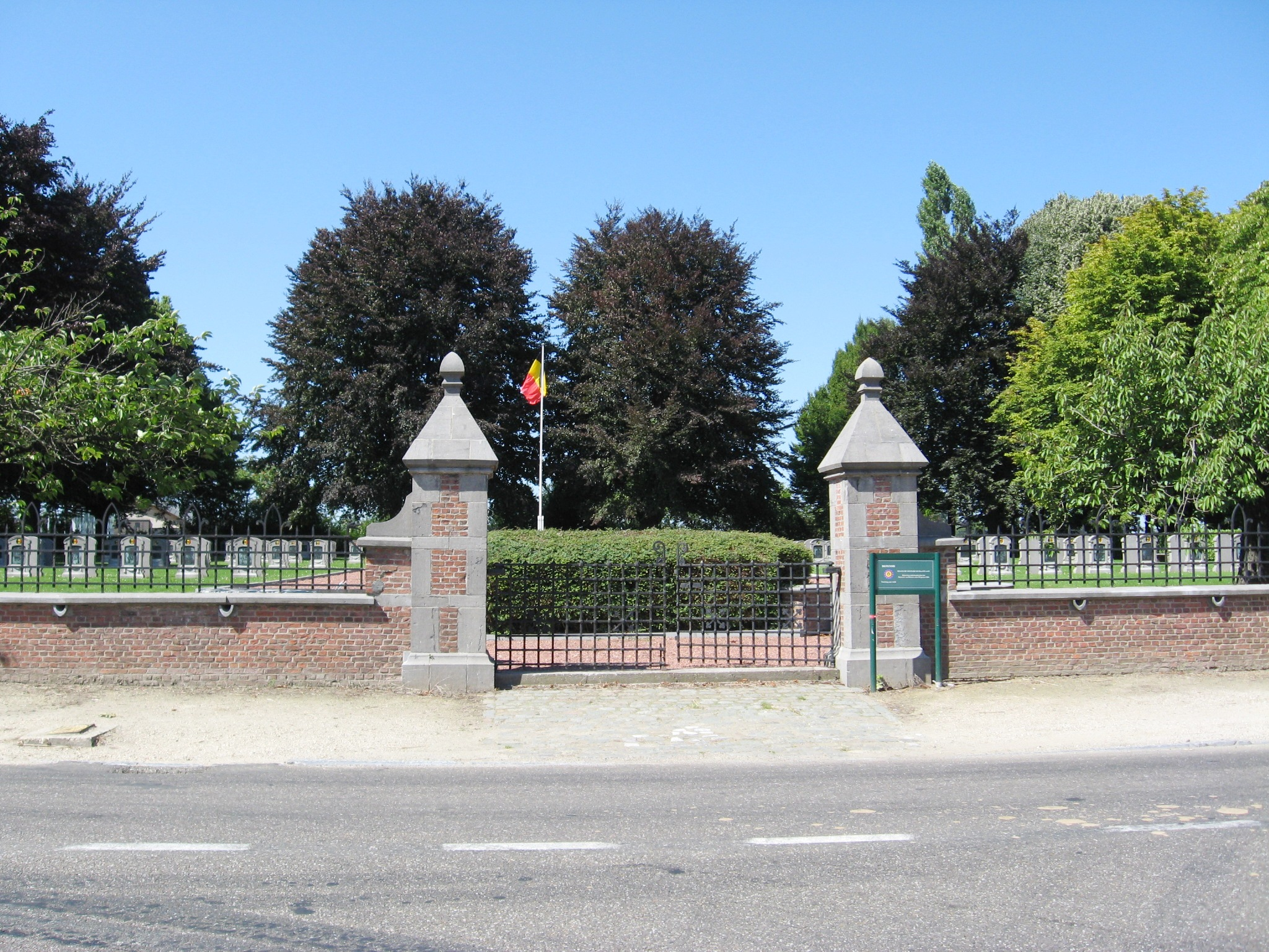 Belgian military cemetery in Halen, Limburg, Belgium